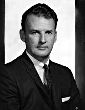 Ronald B. Cameron, US Representative from California